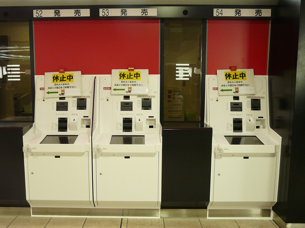 Tokyo-Racecourse-08